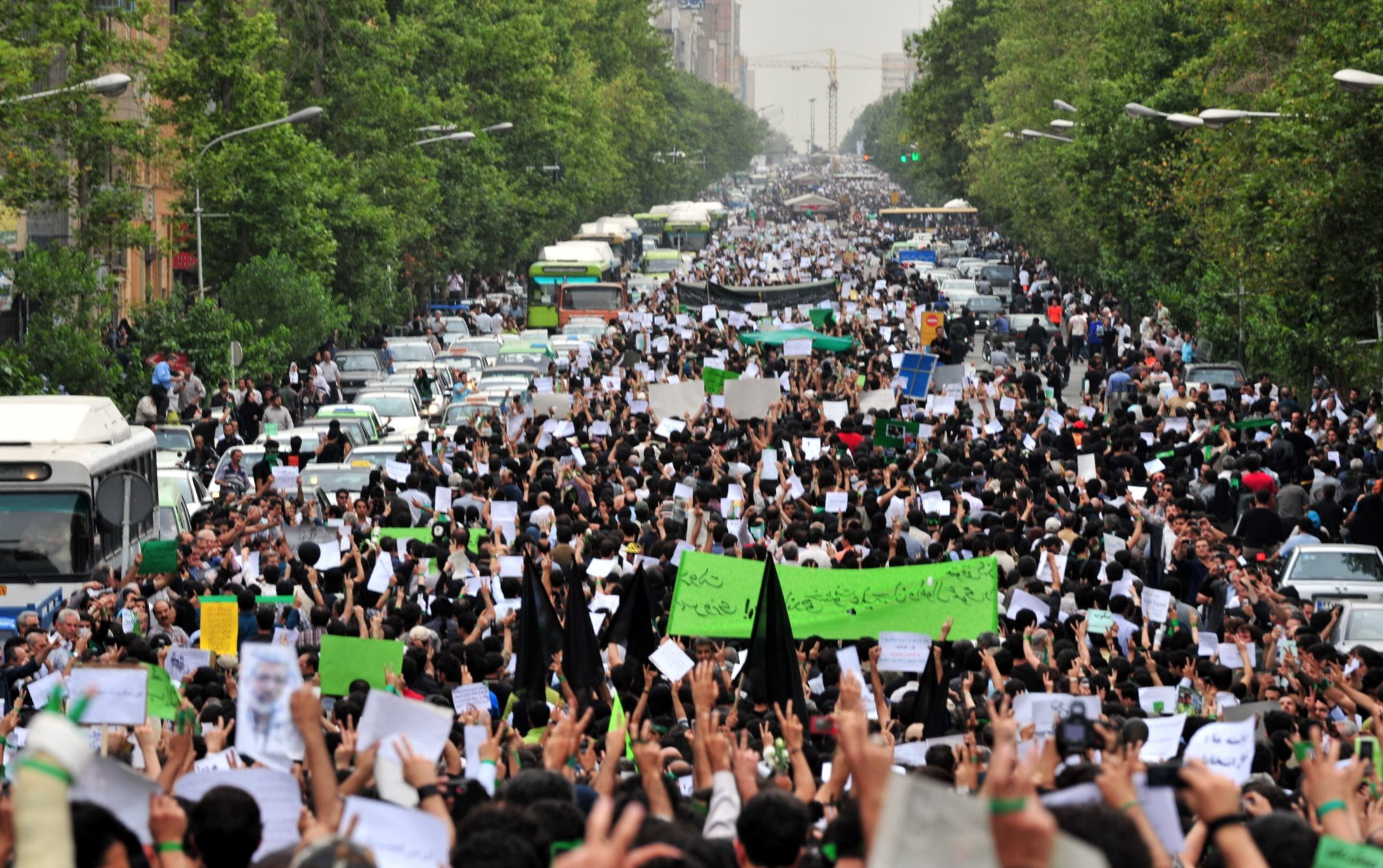 Silent demonstration for saying condolence to family of this week martyrs A lot more photos from this day: Viva Iran!